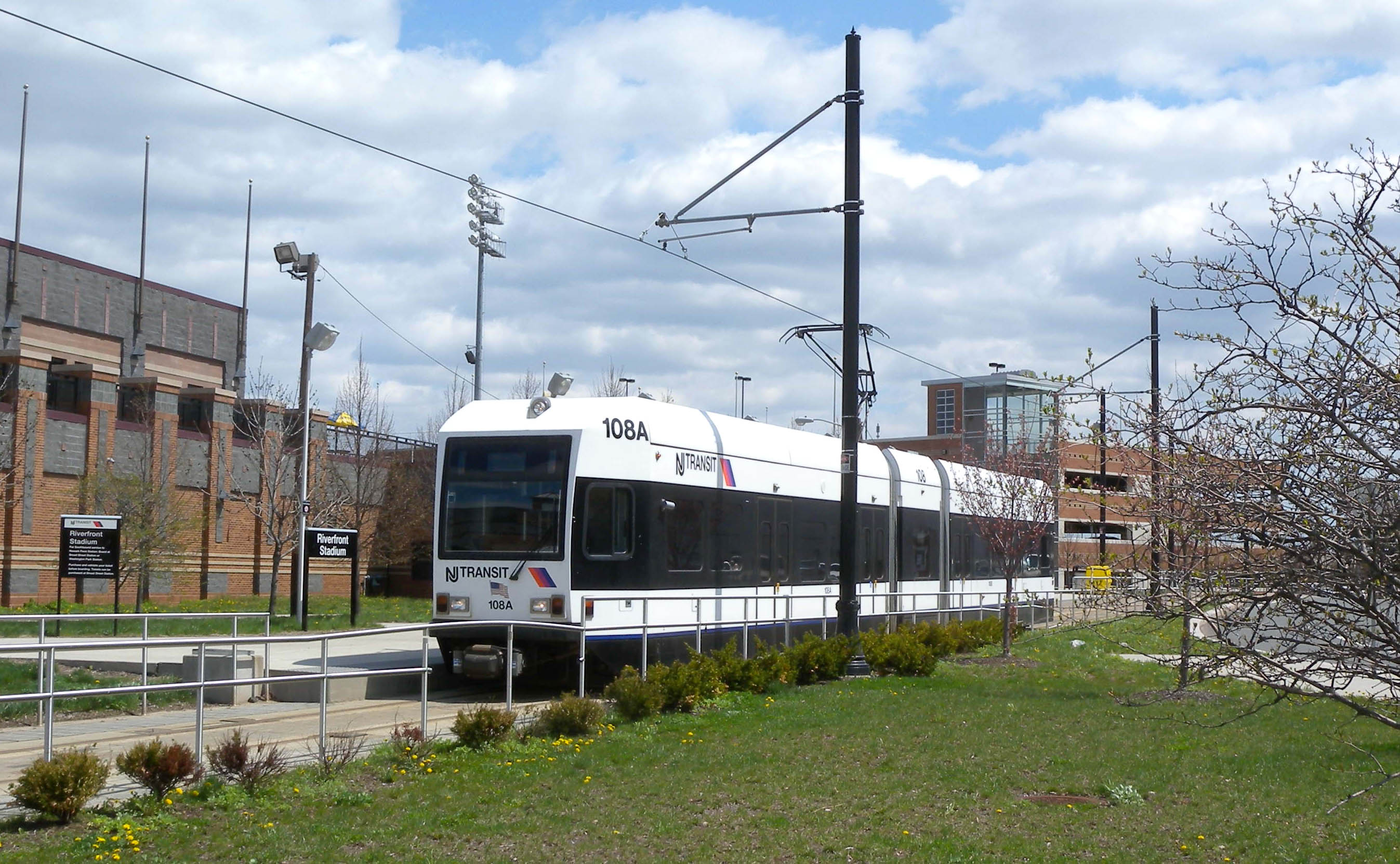 Looking east as trolley arrives at Riverfront Stadium (NLR station) on a sunny midday.